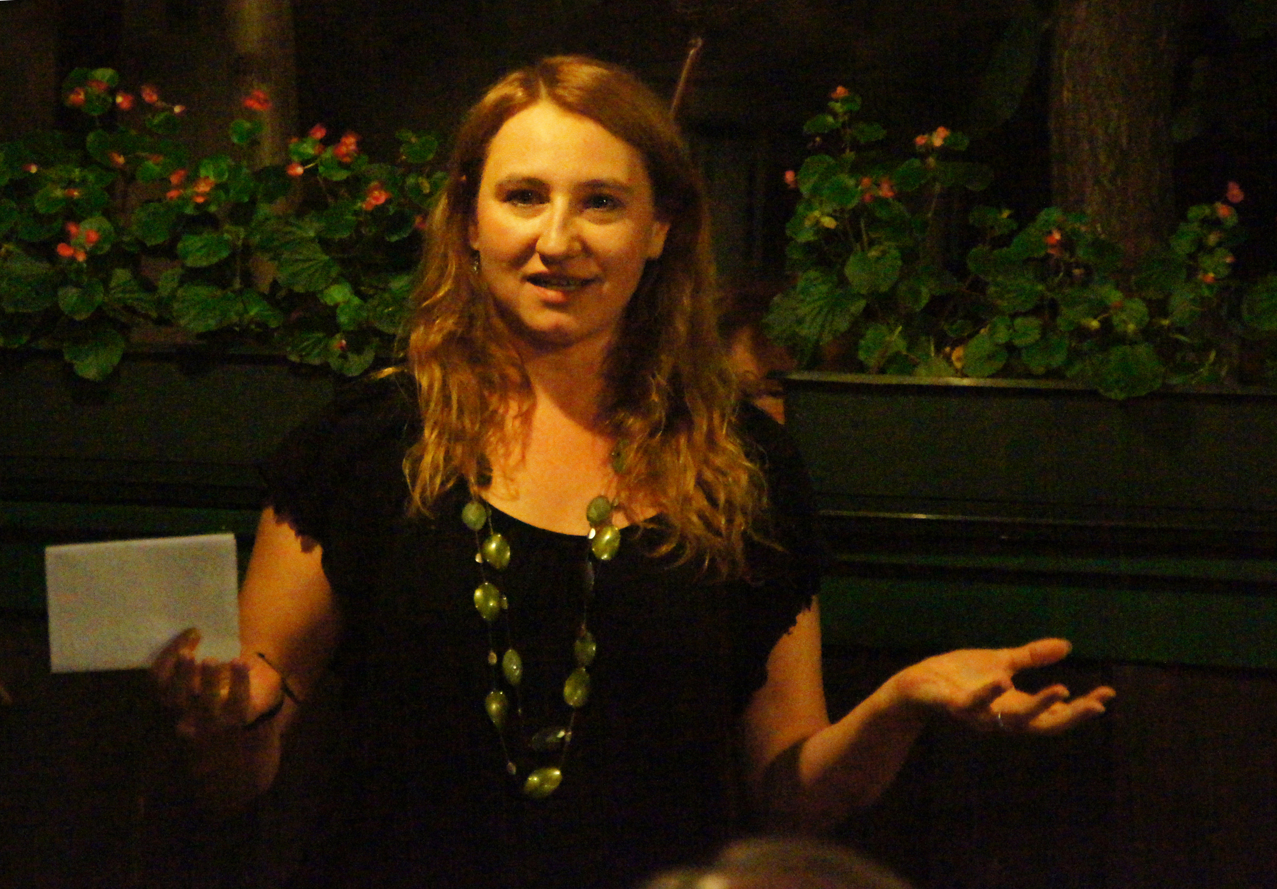 See filename. Shot was taken on occasion of Rolf Schwendter's birthday's party 2013, happening on one of Schwendter's favourite locations, Weinhaus Sittl. Unfortunately, Rolf deceased on July 21st...